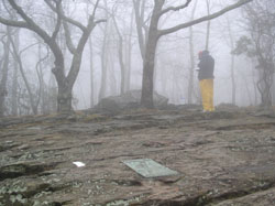 A hiker signs the register at the southern terminus on Springer Mountain. Pic by Charles Gunti